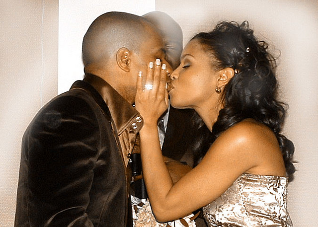 Photo by Lauren LH Jones for The Vibe Refinery. The November issue of Ebony Magazine 2006 Feature spread on The Franklins. T. D. Jakes in the background. The photos have been featured on Gospel city. Taken on location at the Belo Mansion, downtown Dallas.